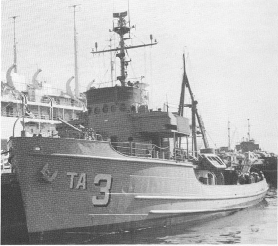 Ex-USS Pinola (ATA-206) in South Korean Naval service as ROKS Do Bong (ATA-3) moored pierside, date and location unknown. US Navy photo from "All Hands" magazine